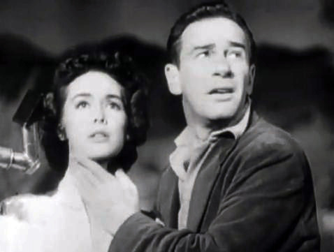 Barbara Rush and Richard Carlson in It Came from Outer Space (1953) - trailer (cropped screenshot).